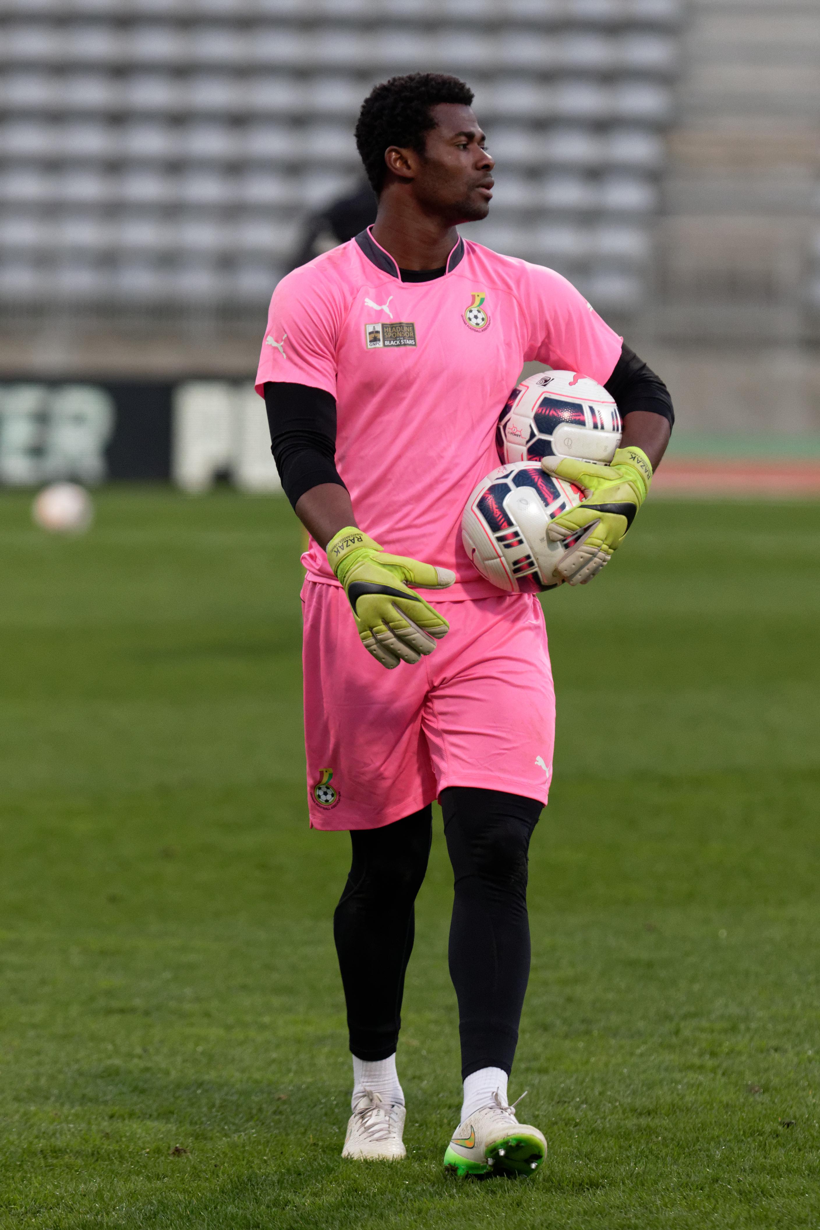 Mali vs Ghana, exhibition game at Paris, 31st March 2015.